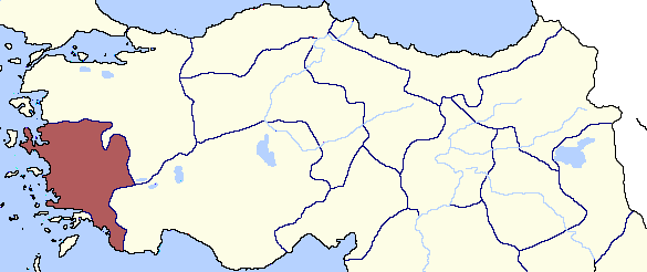 Aidin Eyalet in 1861. According to the information of this map: [1]